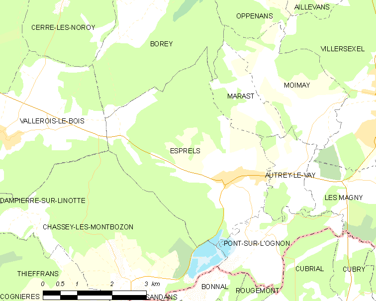 Map of French municipality